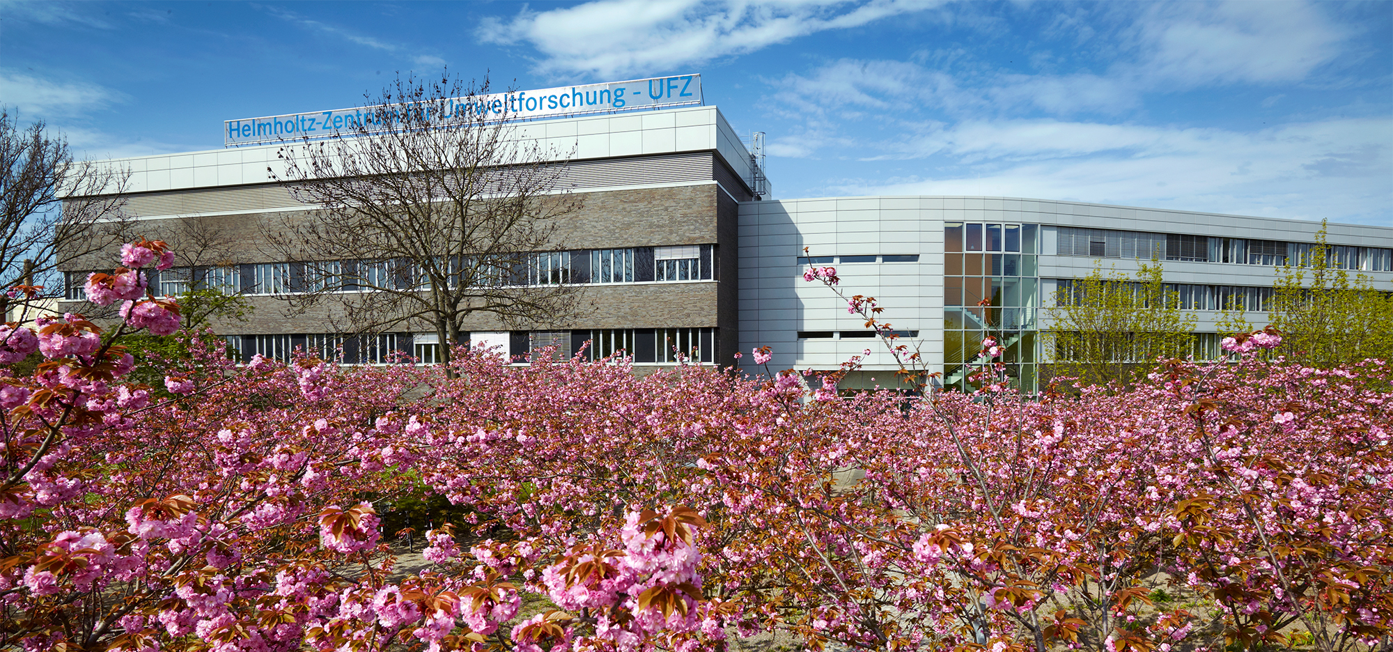 Beschreibung: Labor- und Bürogebäude des UFZ-Standortes MagdeburgDatum: 27.04.2012